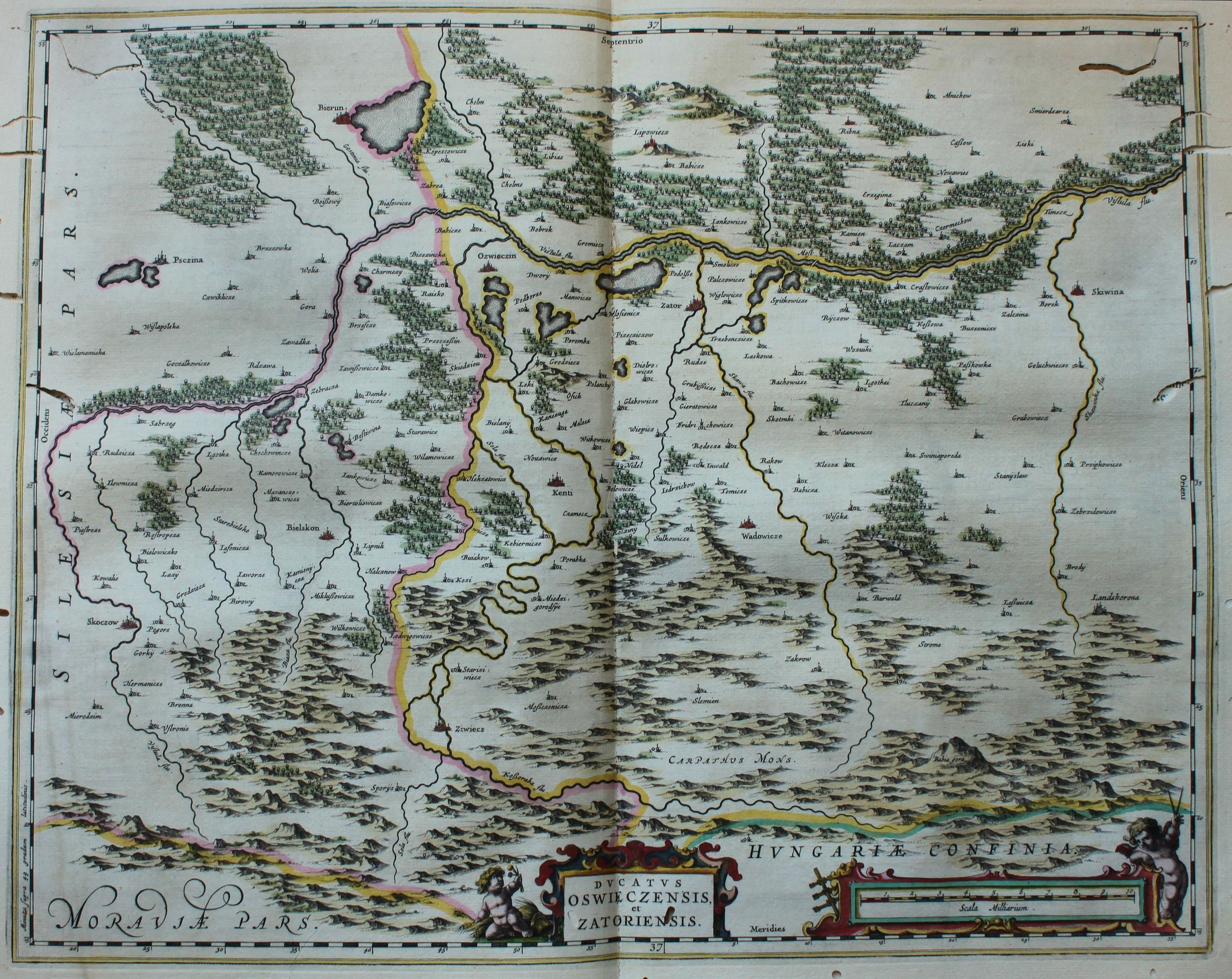 A map of Duchies of Oświęcim and Zator, Poland, 1659